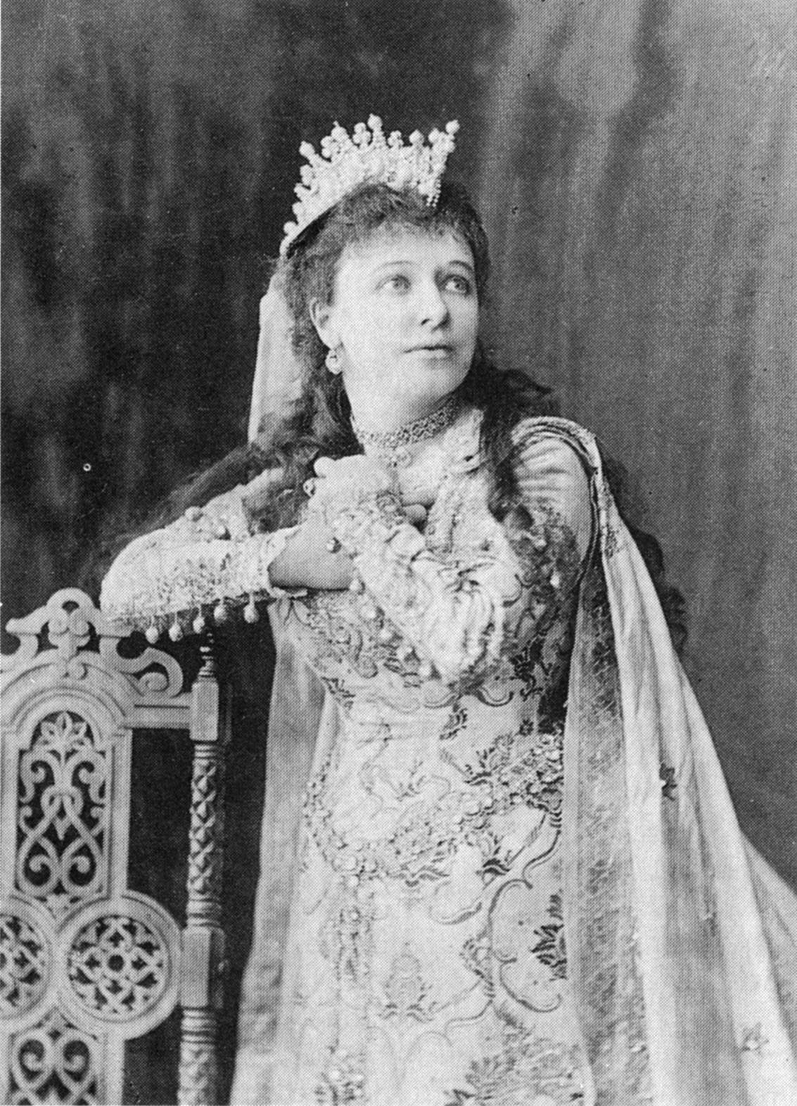 Emma Albani as Elisabeth in the opera Tannhäuser.